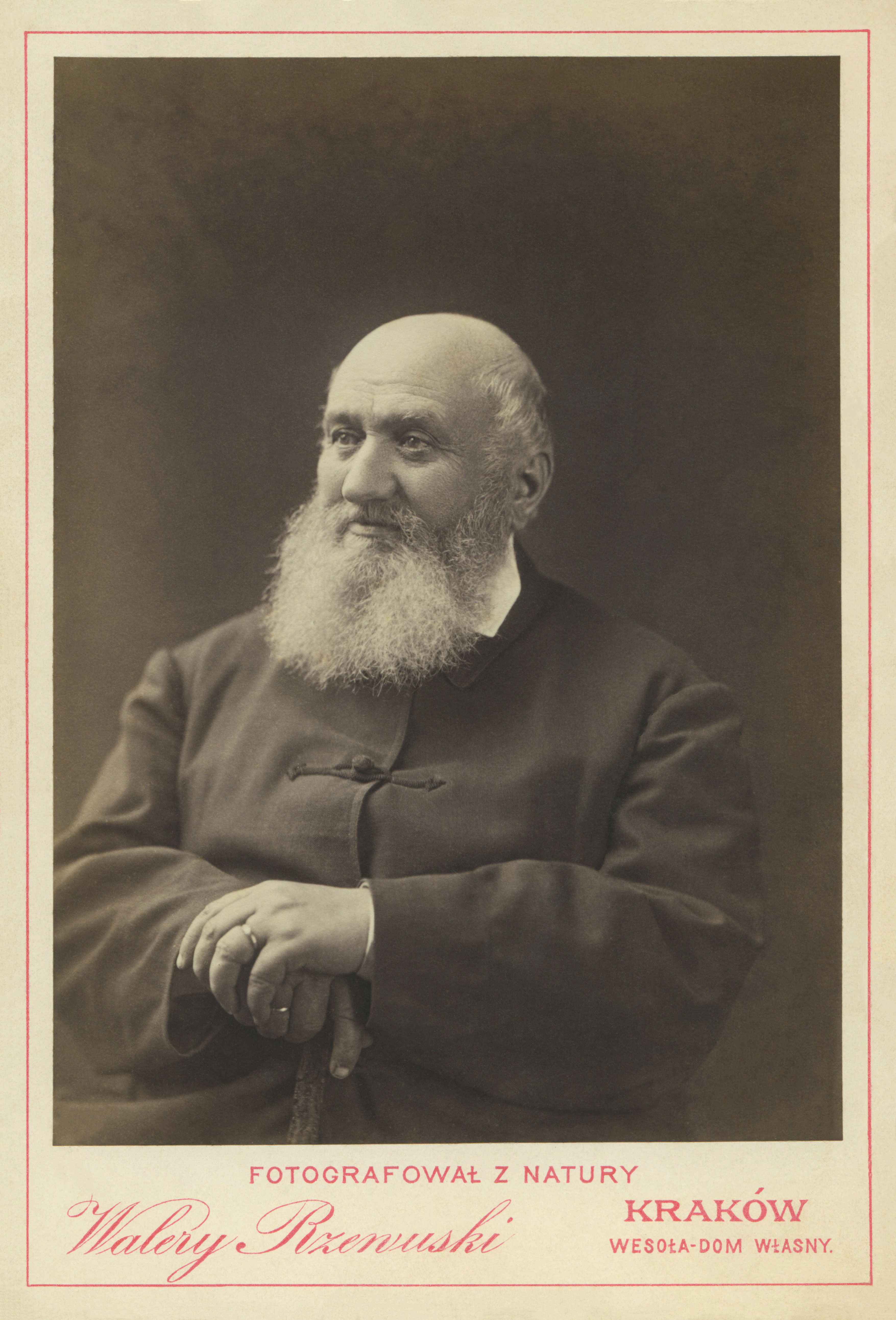 Teofil Wojciech Ostaszewski (1807-1889). Pracownia Fotograficzna Walerego Rzewuskiego, Kraków. Size of the carton: 109 mm x 164 mm. Size of the photo: 96 mm x 134 mm